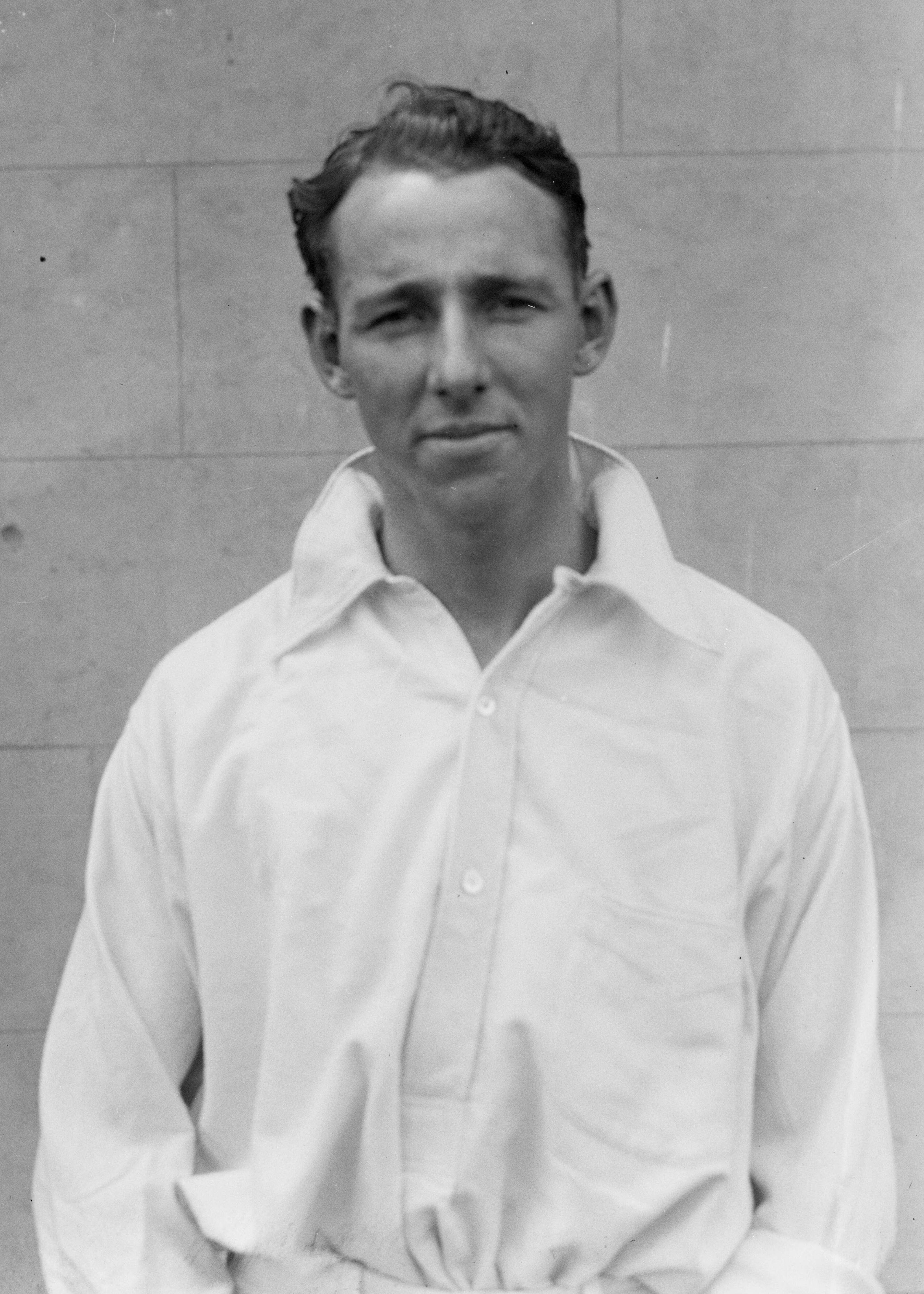 Australian cricketer Archie Jackson